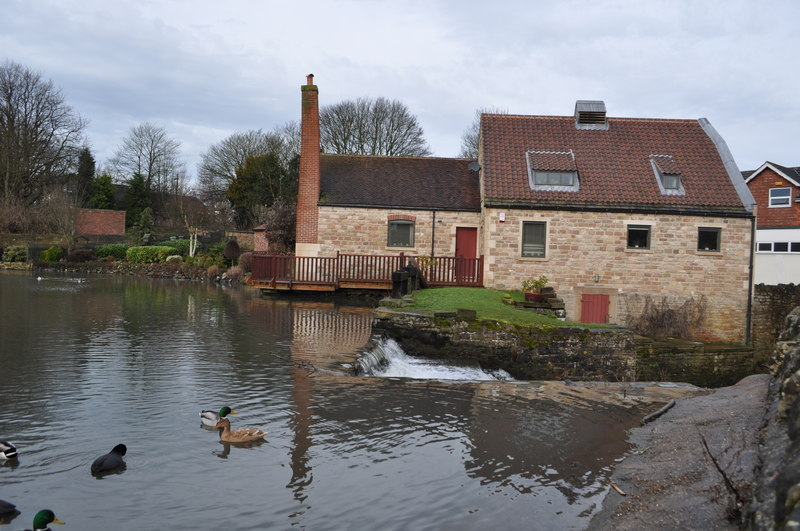 Renovated former mill building in Old Pleasley village